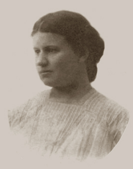 Photograph of May Sinclair